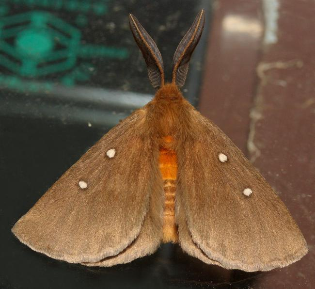 Anthela calispila